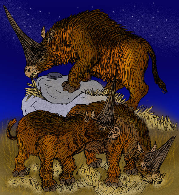 Reconstruction of the elasmothere rhinoceros Iranotherium morgani, of Late Miocene Central Asia. A bull grazes above two cows. (C) Stanton F. Fink